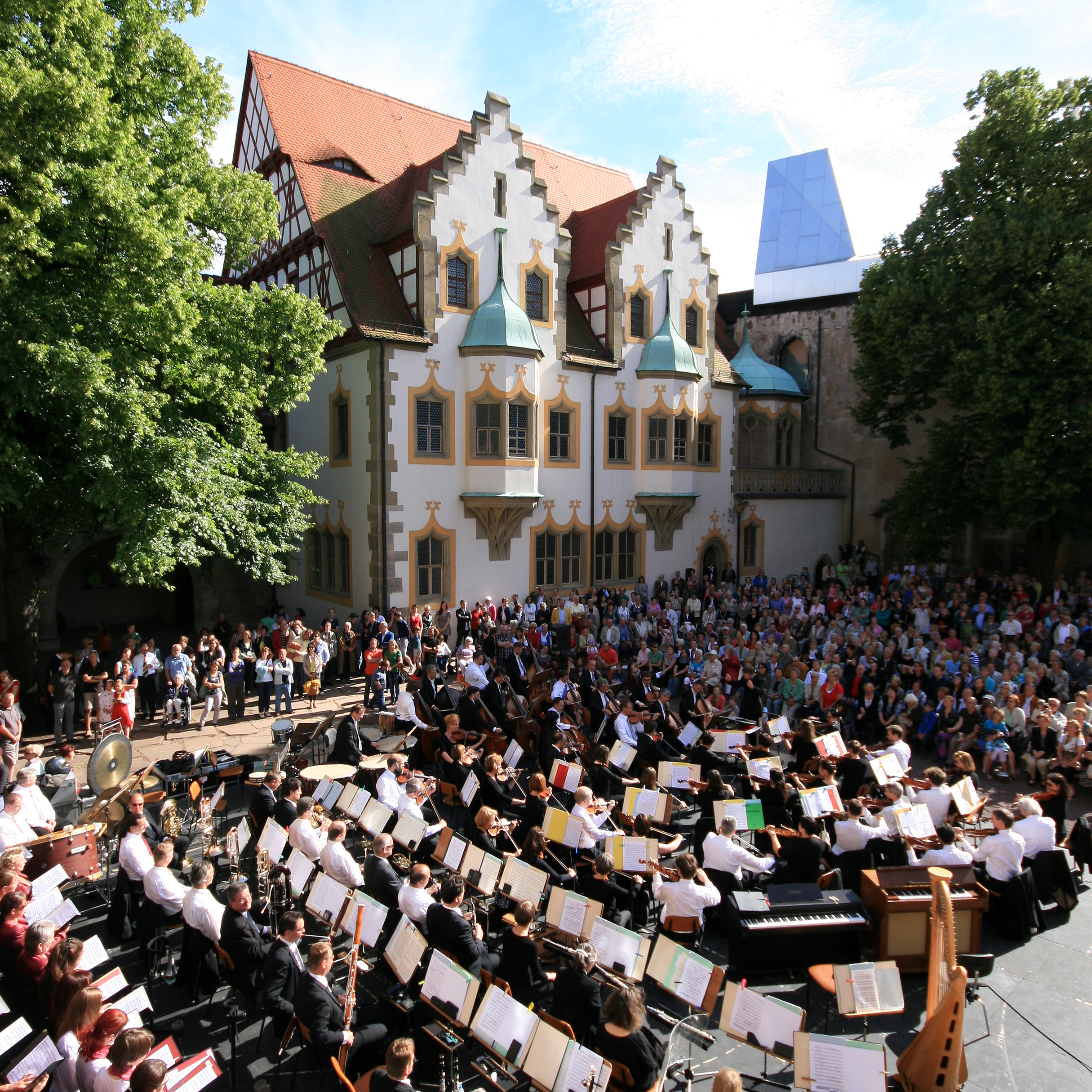 Moritzburg, Talamt on the Southside, Concert by Staatskapelle Halle